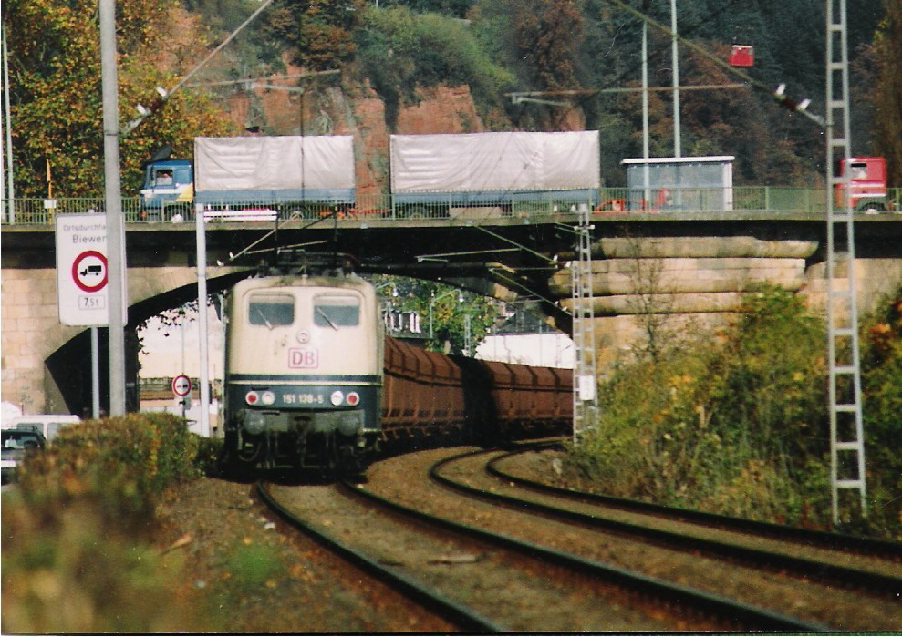 Two DB class 151 engines pull an ore train with iron ore for the works in Dillingen through Trier, Germany. The Kaiser-Wilhelm bridge spanning the Moselle River is visible in the background.